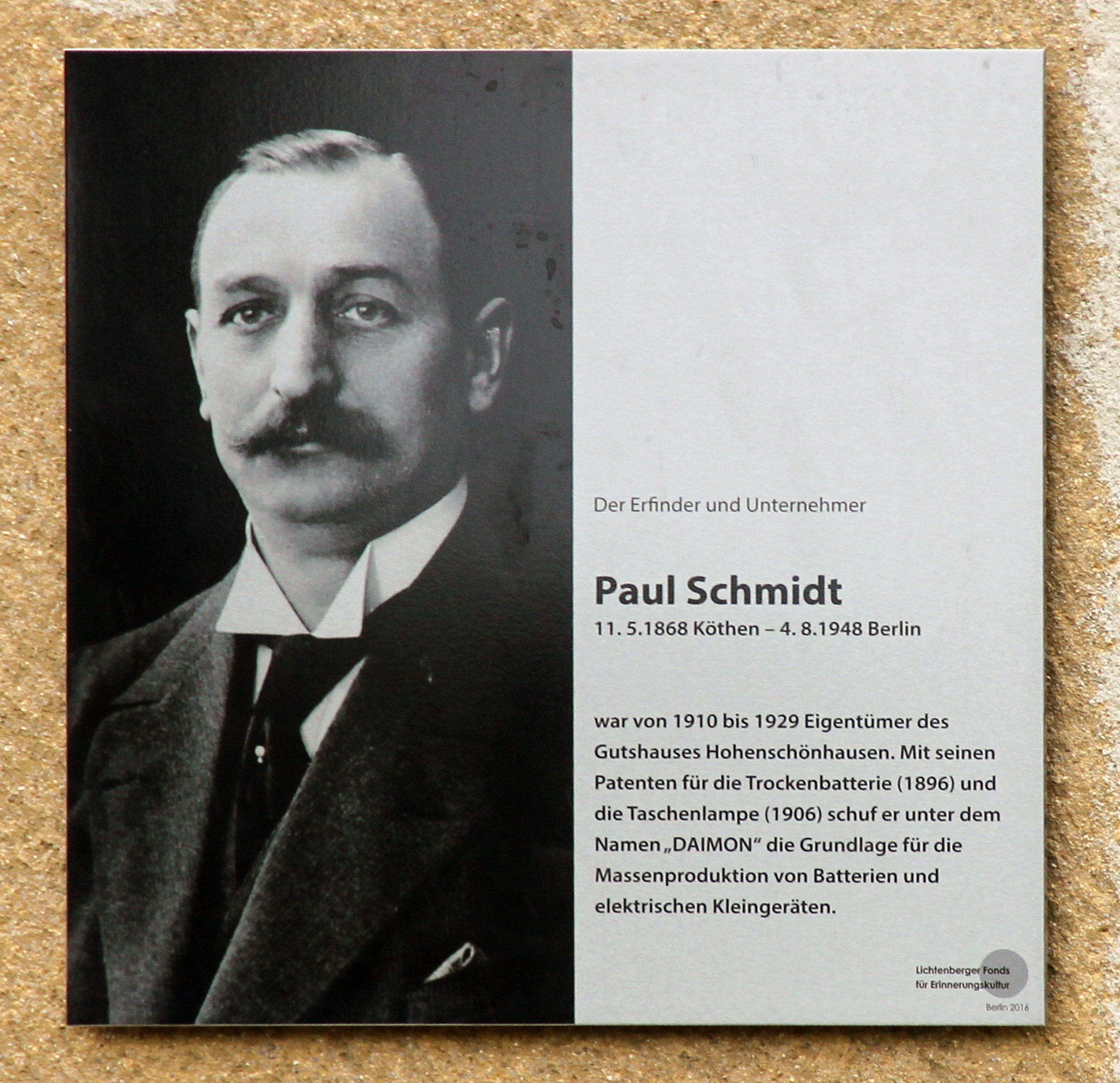 Memorial plaque, Paul Schmidt, Hauptstraße 44, Berlin-Alt-Hohenschönhausen, Deutschland